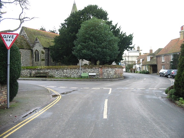 Crossroads of Jubilee Road and The Street, Worth Kent, seen from the east. SS Peter and Paul parish church is partly visible behind trees in its churchyard.